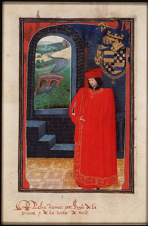 Statuts, Ordonnances et Armorial de l'Ordre de la Toison d'Or (Statutes, Ordonnances and armorial of the Order of the Golden Fleece) Place of origin, date: Southern Netherlands; 1473. Added sections: Southern Netherlands; 1478 or shortly after and 1491 or shortly after Material: Vellum, ff. 86, 249x187 (167x106) mm, 23 lines, littera cursiva (lettre bourguignonne). French. Binding: 18th-century brown leather Decoration: 1 full-page miniature (170x115 mm) with border decoration; 92 miniatures (185/155x120/100 mm); 1 historiated initial (80x90 mm) with border decoration; decorated initials with border decoration (ff., Added section: miniatures ; 4 drawings for miniatures (not finished) Provenance: Presented in 1473 by Gilles Gobet, King of Arms of the Order of the Golden Fleece, to Charles the Bold, Duke of Burgundy and the other Knights during the Chapter of the Order held at Valenciennes; Treasure of the Golden Fleece, Brussls; taken away by the Treasurer C.-F. Humyn (d. 1735) or his daughter C.Ch. de Corte; by legacy to her daughter M.-L. de Corte, wife of Ph.-E. de Poederlé; purchased in 1781 at the Poederlé sale by G.-J- Gérard of Brussels; acquired in 1832 as part of the Gérard collection (no. A 27)